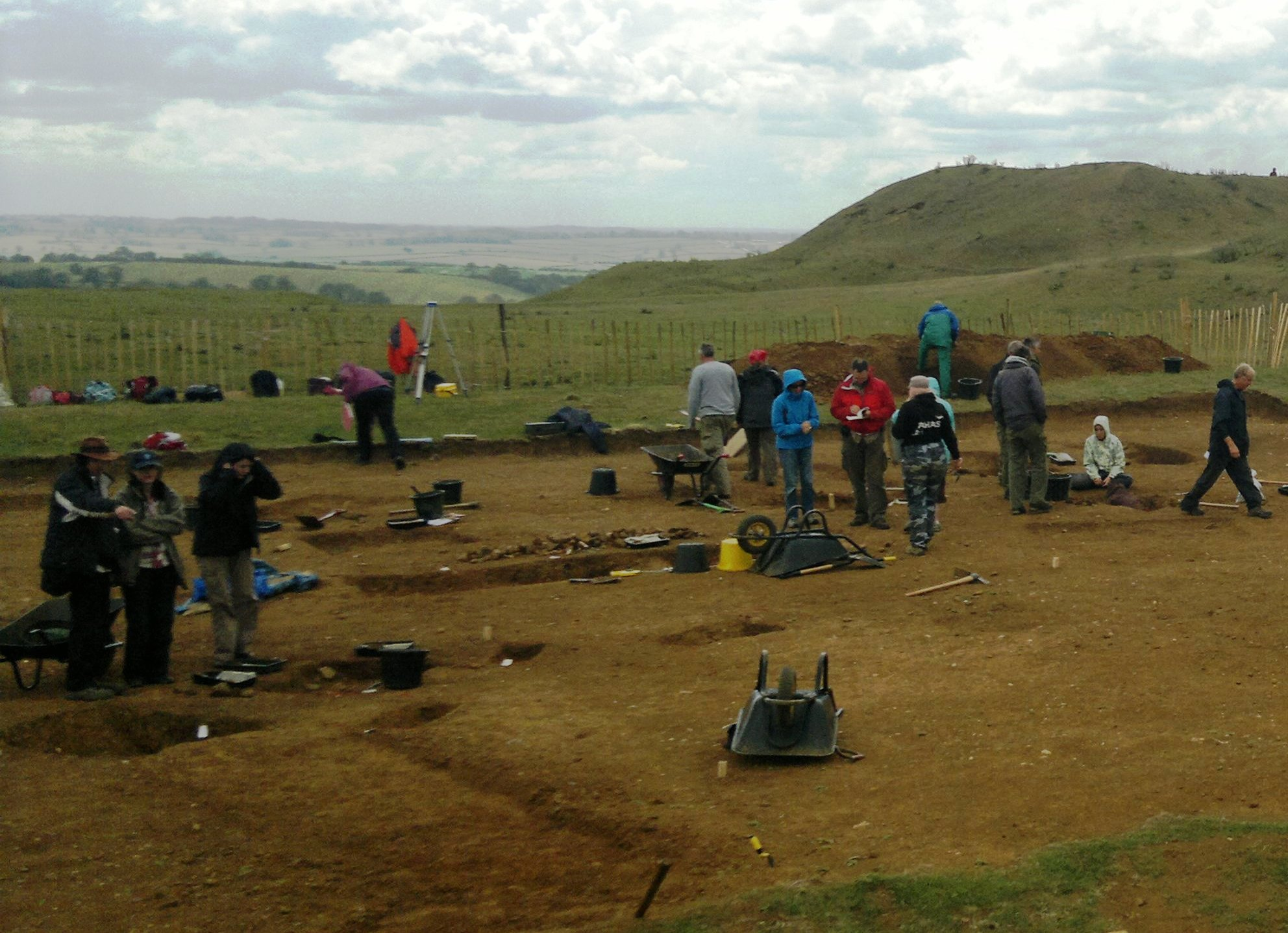 Atlas of Hillforts 1000 Excavations to the south of the entrance to Burrough Hill Iron Age hillfort carried out by the University of Leicester.